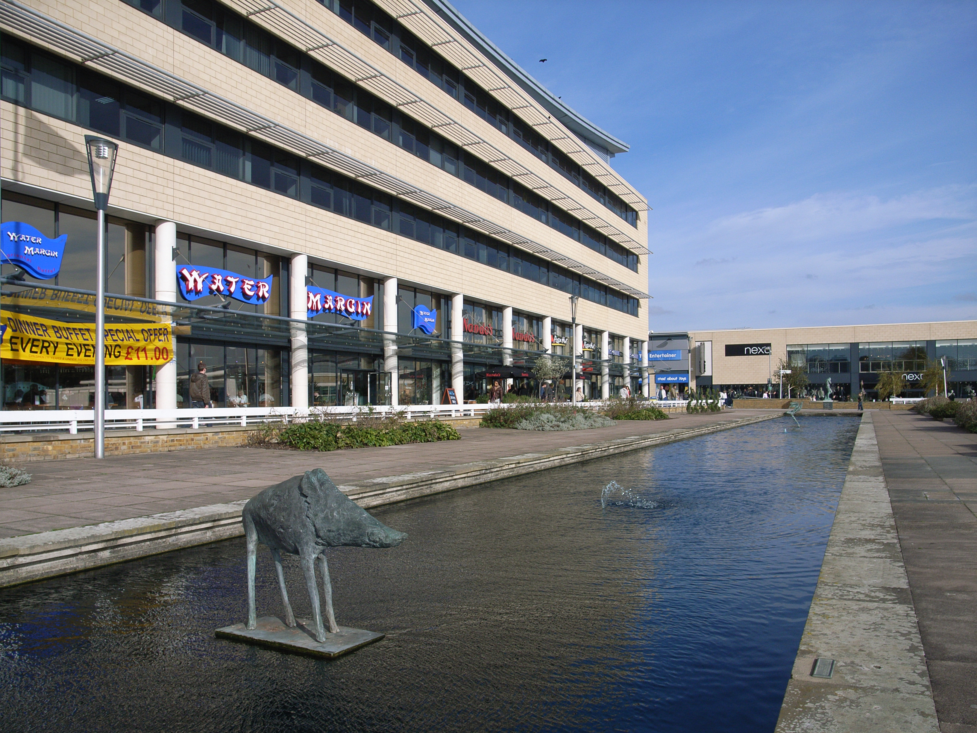 'Boar' (1970) by Elisabeth Frink, the Water Gardens, Harlow, Essex. The Water Gardens (1960-3), Harlow, Essex by Frederick Gibberd and Gerry Perrin. Photo taken on a tour of Frederick Gibberd's work in London and Harlow with the 20th Century Society.